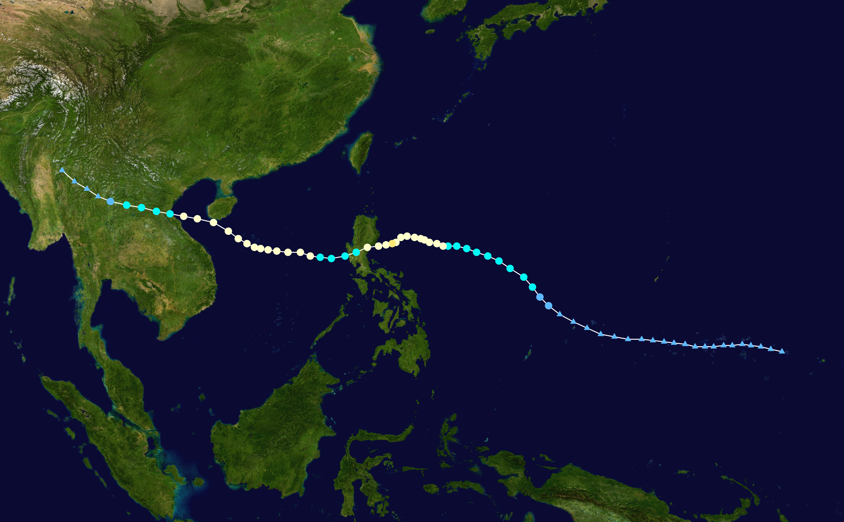 Typhoon Cary 1987 track. Uses the color scheme from the Saffir-Simpson Hurricane Scale.